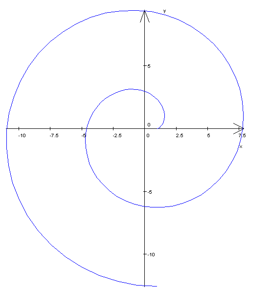 Involute of circle